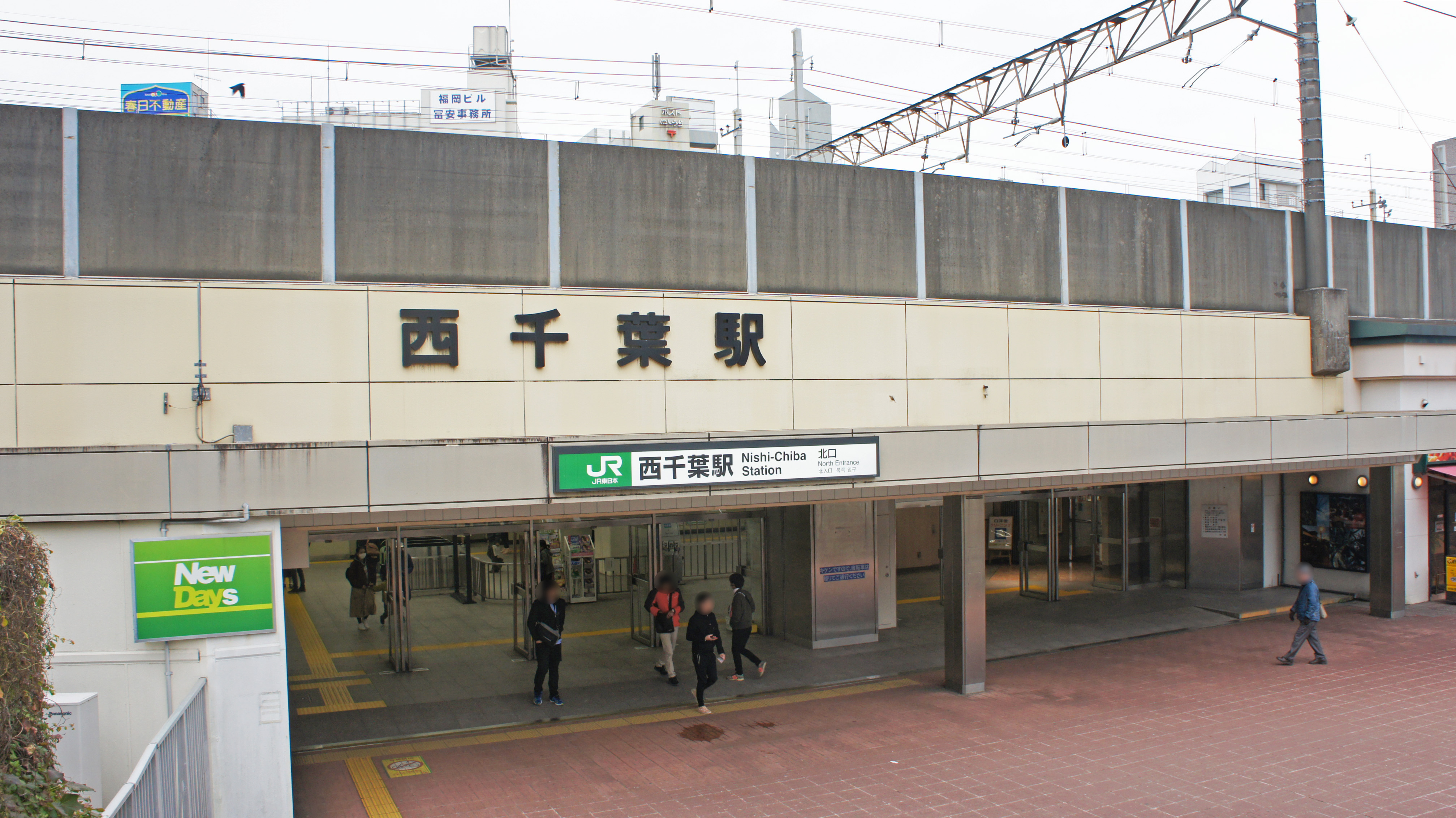 North Exit of JR Sobu-Main-Line Nishi-Chiba Station